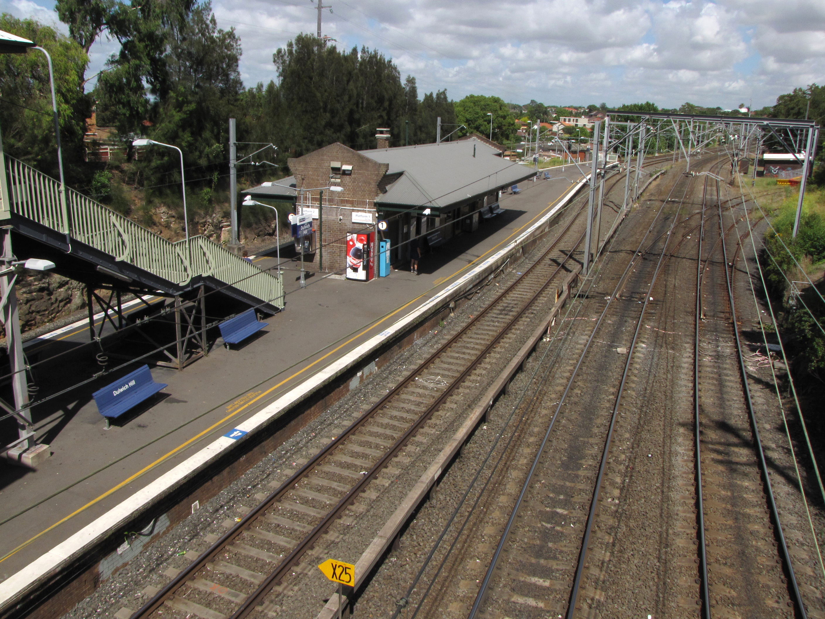 The Metropolitan Goods railway line runs parallel to the Bankstown railway line between Marrickville and Campsie. The eastern junction of the Rozelle branch can be seen to the right.